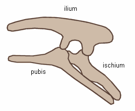 Ornithischia pelvis structure.